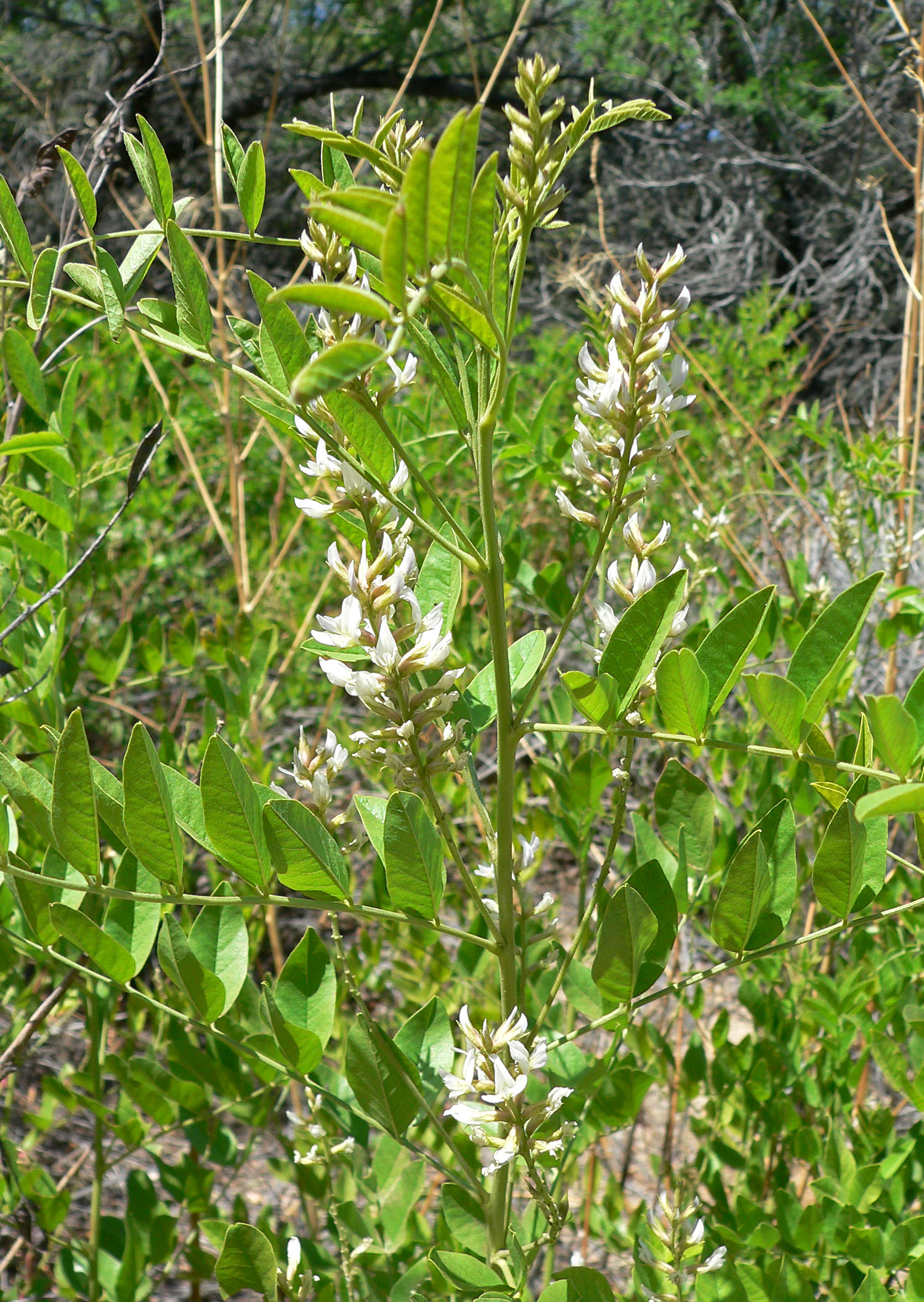 Glycyrrhiza lepidota on path to Crystal Spring, Ash Meadows National Wildlife Refuge, southern Nevada